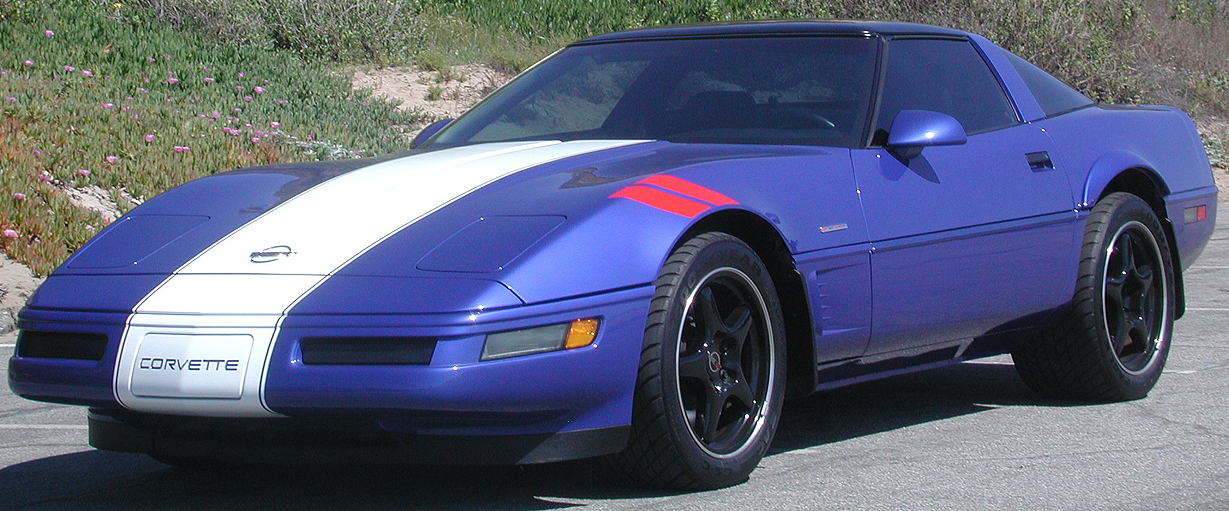 1996 Corvette Grand Sport #236, 3,850 Orig. Miles, Admiral Blue & White/Black Leather, Six Speed, 330 Horsepower, Dual Power Sport Seats. Electronic Air Conditioning, Bose CD/Cassette Player, Z-51 Performance Handling, Low Tire Pressure Warning, 1 of 810 Grand Sport Coupes Produced, 1 of 276 With Z-51 Performance Handling, Factory Window Sticker and Build Sheet. Nation Show Winner NCCR Car Owner Richard Hughes of Beverly Hills, California